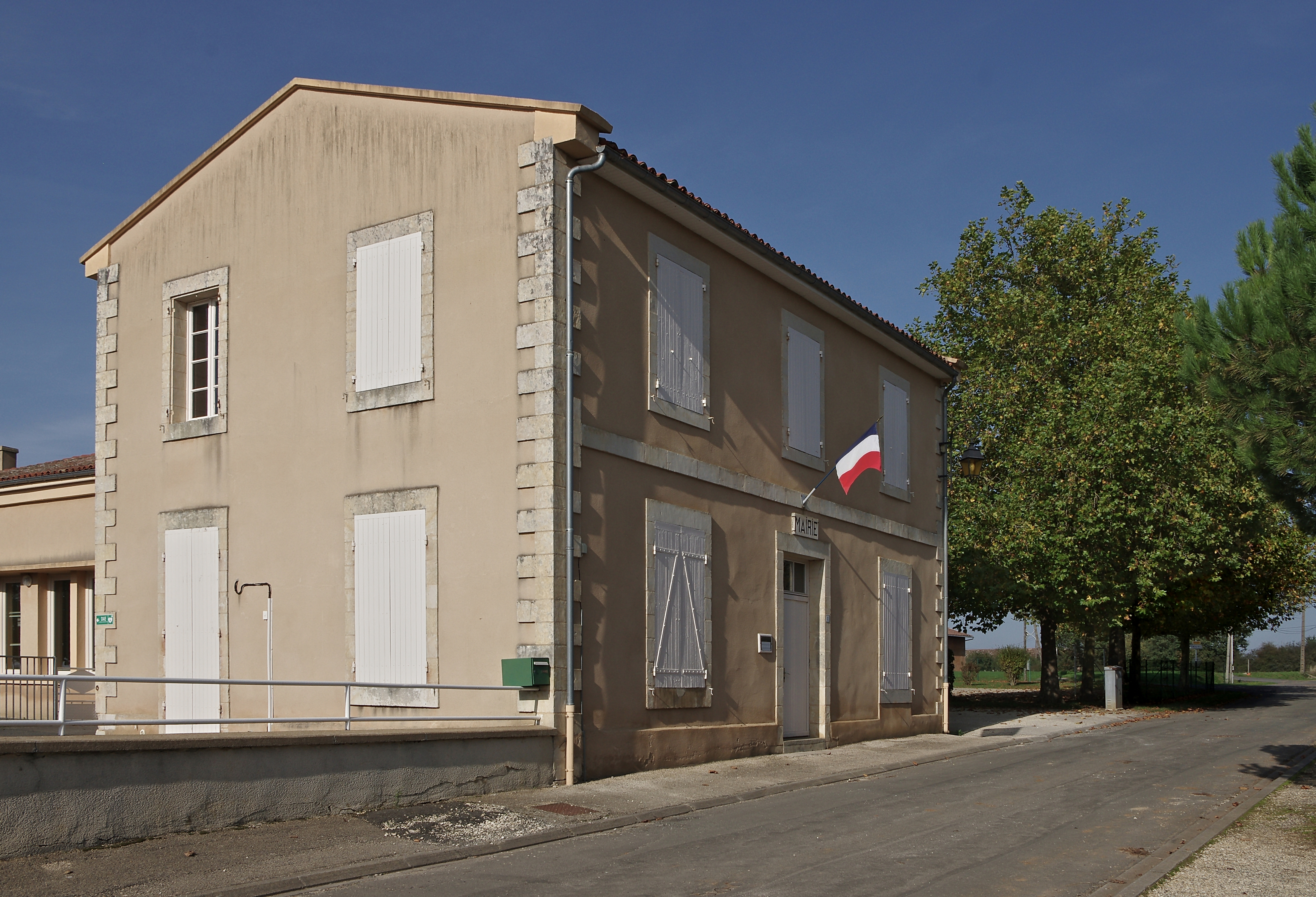 Town hall of Champniers, Vienne, France. Champniers (Vienne)